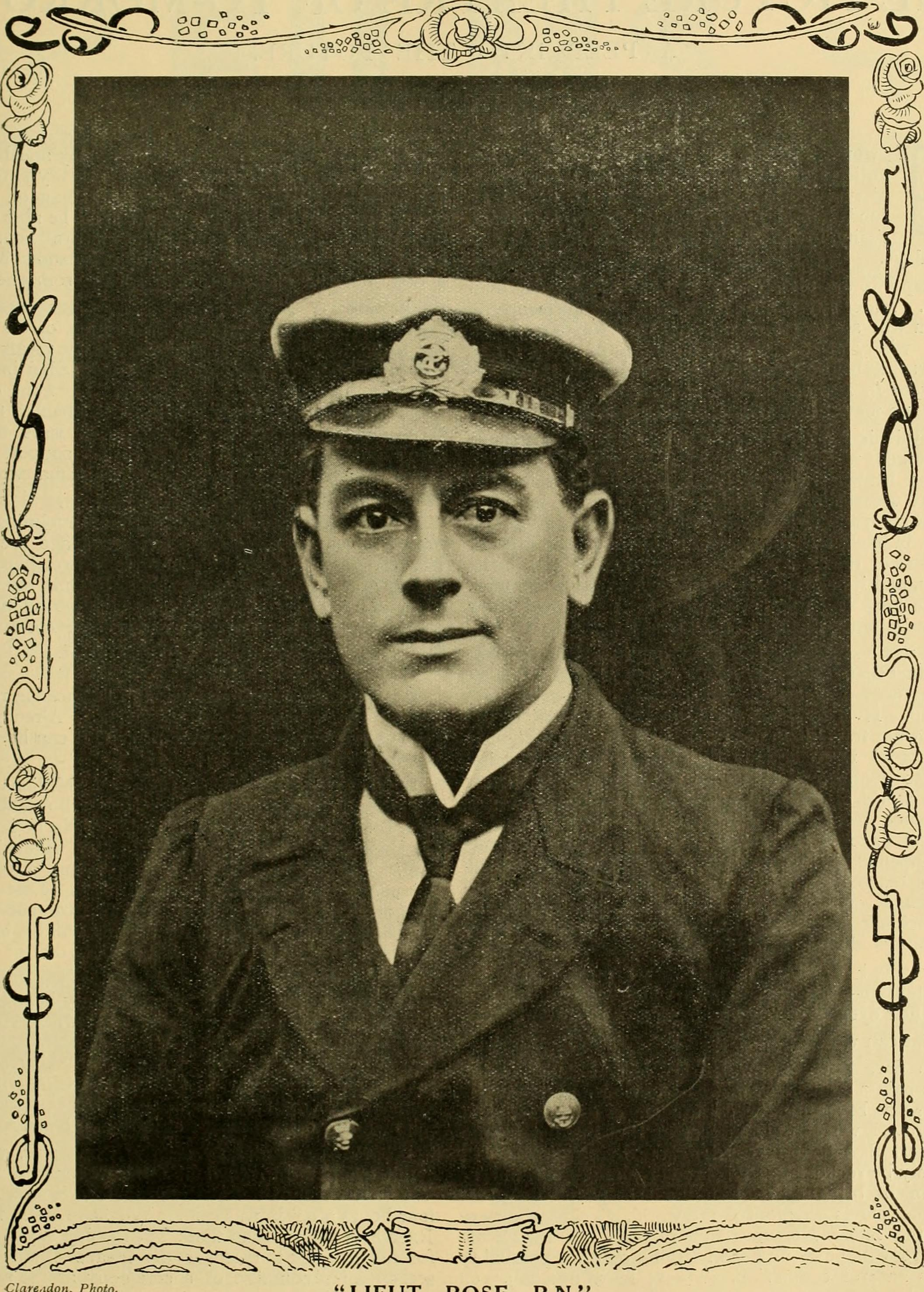 P. G. Norgate as Lieutenant Rose RN, 1912 Title: Cinema News and Property Gazette (1912) Year: 1912 (1910s) Authors: Cinema News Subjects: Motion Pictures Film Industry Trade Magazine nyarc-museumofmodernart Publisher: London Text Appearing Before Image: dustrywhich gives,^year in and year out, over £10,000 to various charities ?New theatres certainly ought to be welcomed and received withopen arms. They give to charity and benefit the million. Domu ic halls which open on Sundays do the same, or do theyonly benefit one fraternity ? A Word in Season. In five years they have become a power in the land, and I hopeas each year rolls by, they will become a greater one But wemust look to it that our local borough councillors, our countycouncillors and our Members of Parliament all know that we areto be reckoned with ; that we are growing ; and that in another fiveyears—well, who can prophesy? We shall see. There is onething, however, to remember, and that is, not to split up intovarious factions and fight one with another. A long pull, astrong pull, and we shall come into our own, and not remain instatu quo, to be sat upon. Five years behind us. We must notforget the five in front of us. July, 1912. THE CINEMA. 15 Picture - Palace Stars. Text Appearing After Image: Clarendon, Photo, LIEUT. ROSE, R.N. One of the most popular heroes on the Screen. 16 THE CINEMA. July, 1912. THE PICTURE THEATRE OF TO-MORROW. A PEEP INTO THE FUTURE. By STETCHWORTH ASHLEY.